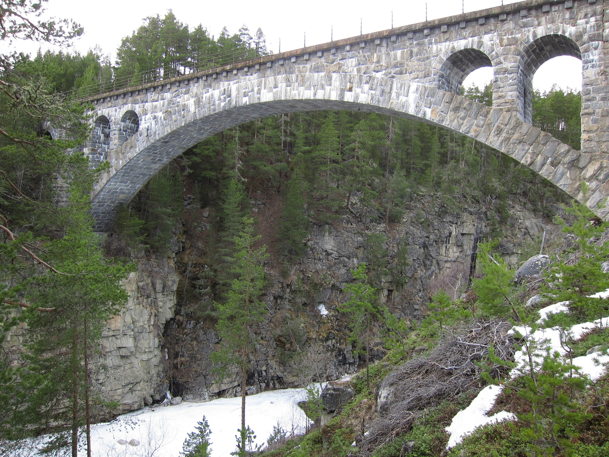 Jora railway bridge at Dombås. Main span 54 meters.